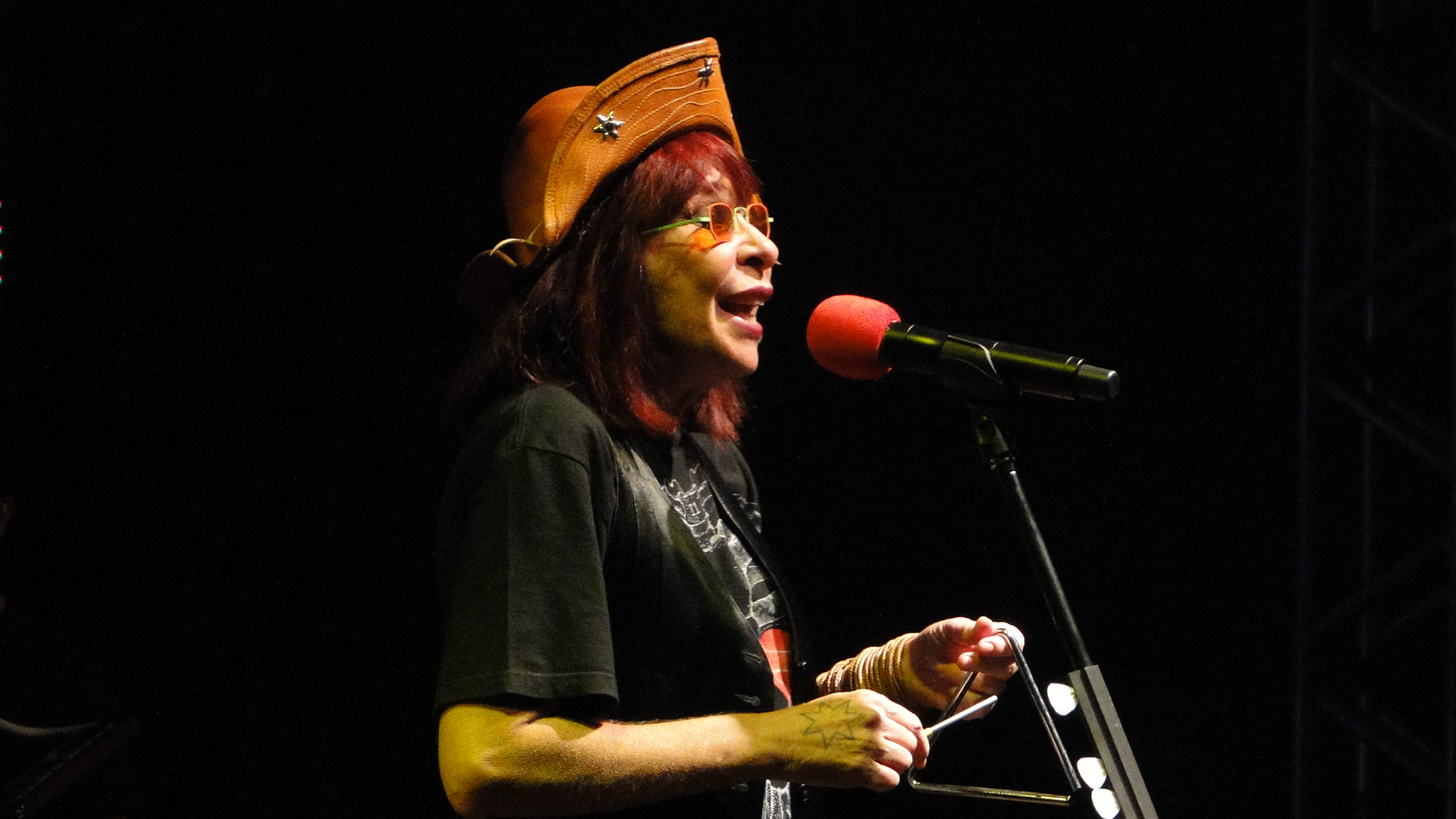 Rita Lee in concert in Araçatuba, May 23, 2009